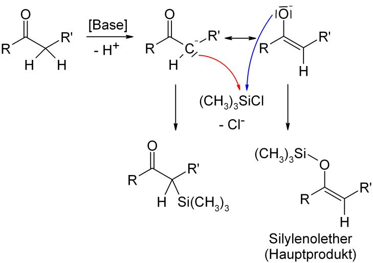 Formation of silyl enol ethers by deprotonation and O-silylation of aldehydes or ketones